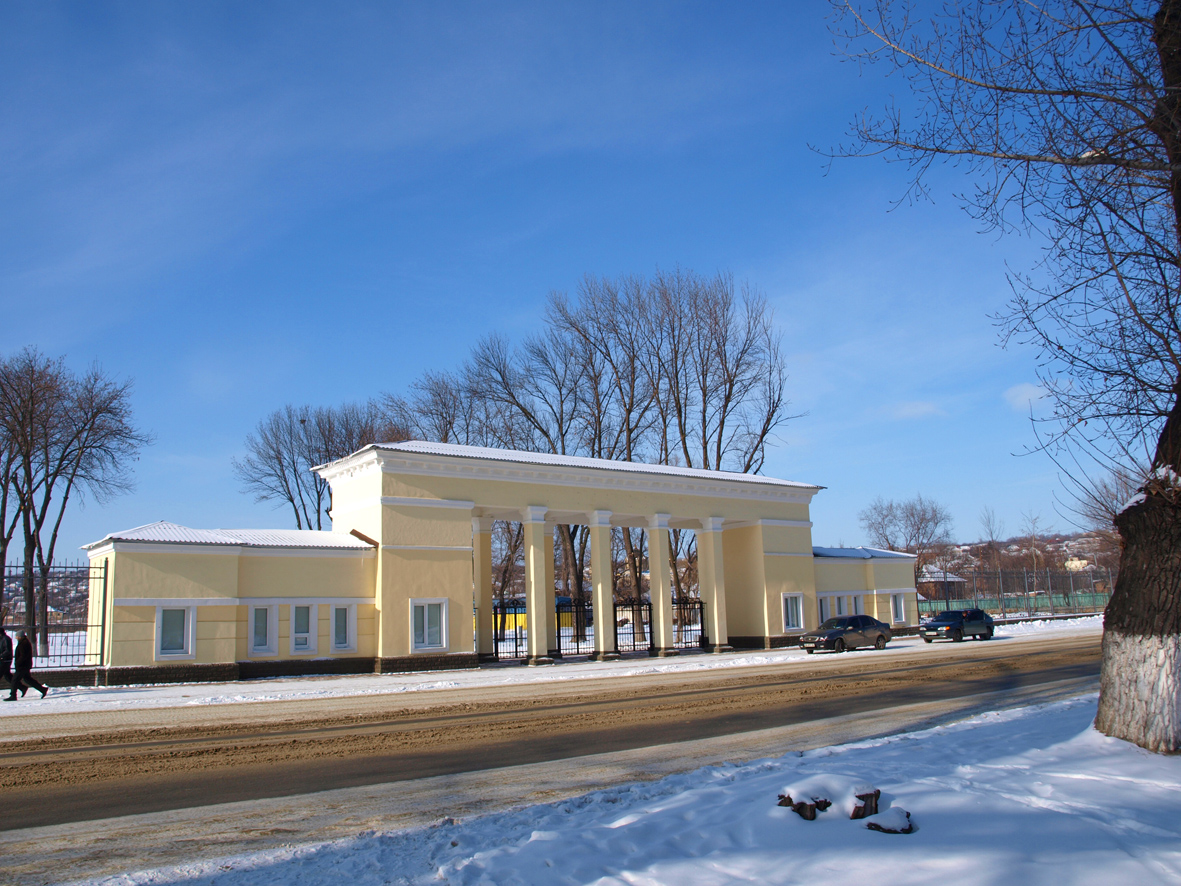 Lenin Stadium in Luhansk, Ukraine